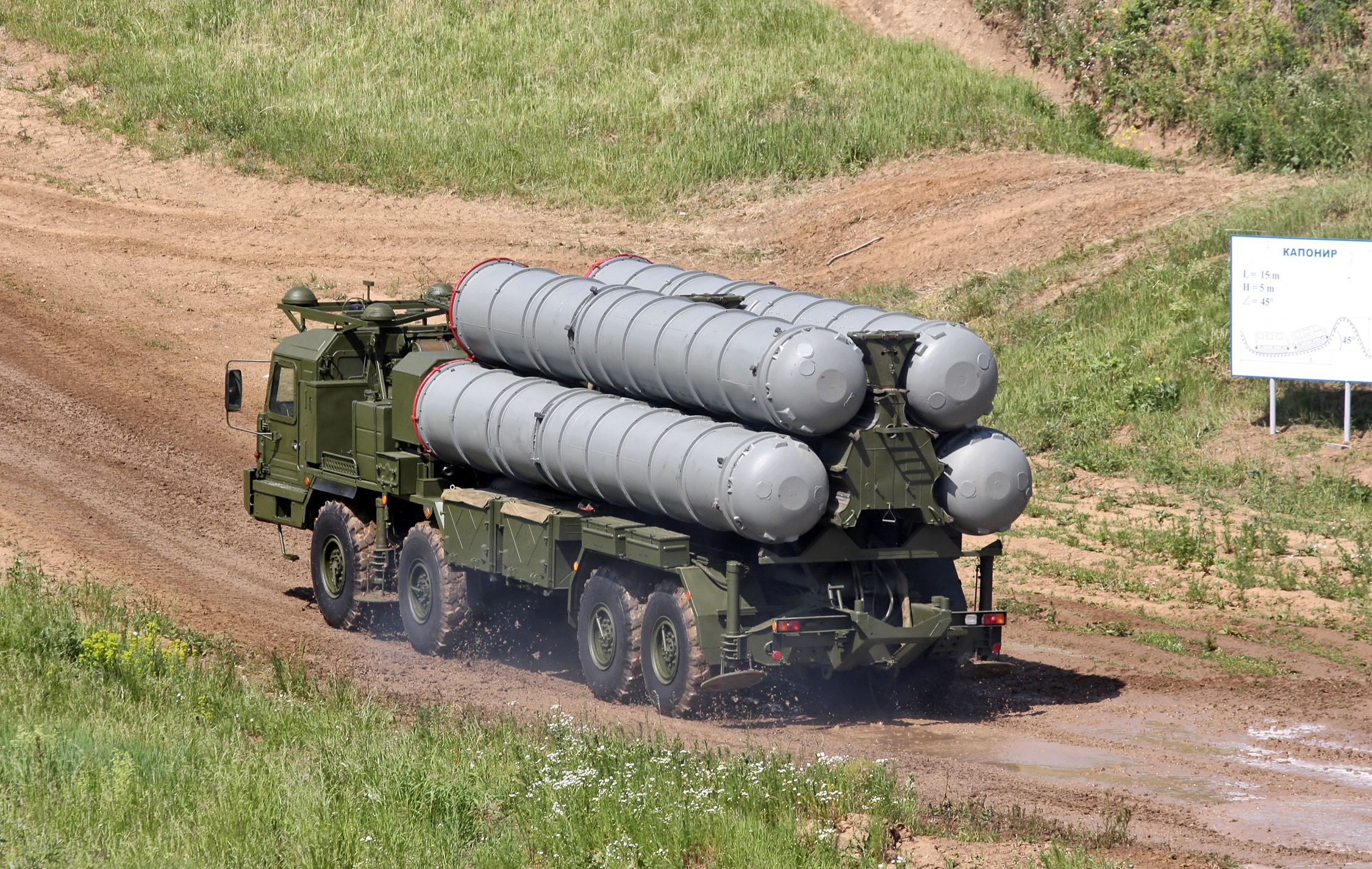 The self-propelled launch vehicle 5P90S on a BAZ-6909-022 chassis for the S-400 system.